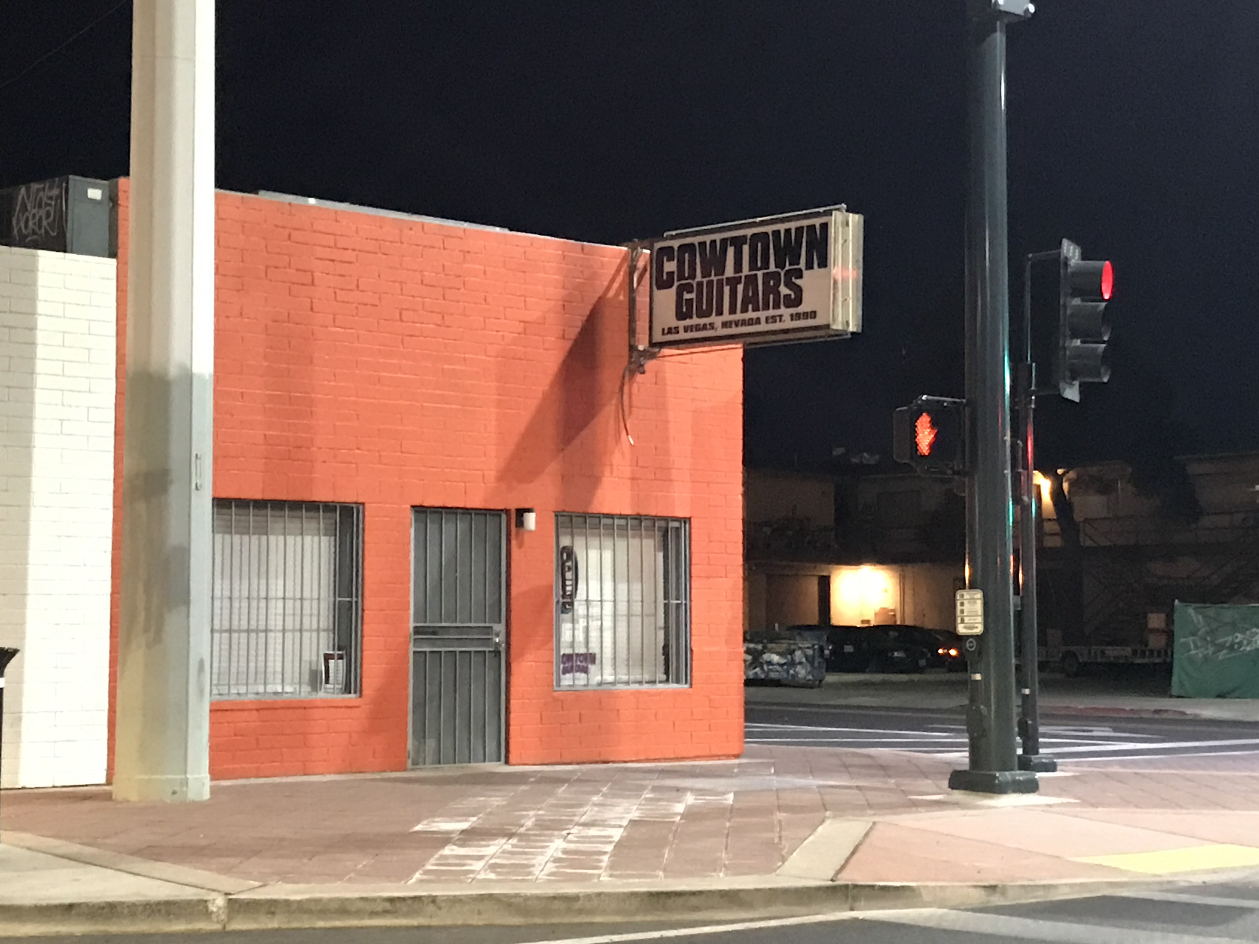 Cowtown store front on Commerce St.